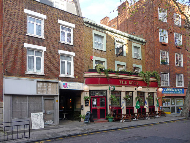 The Boot, Cromer Street, King's Cross The Boot public house is almost opposite the Church of the Holy Cross.